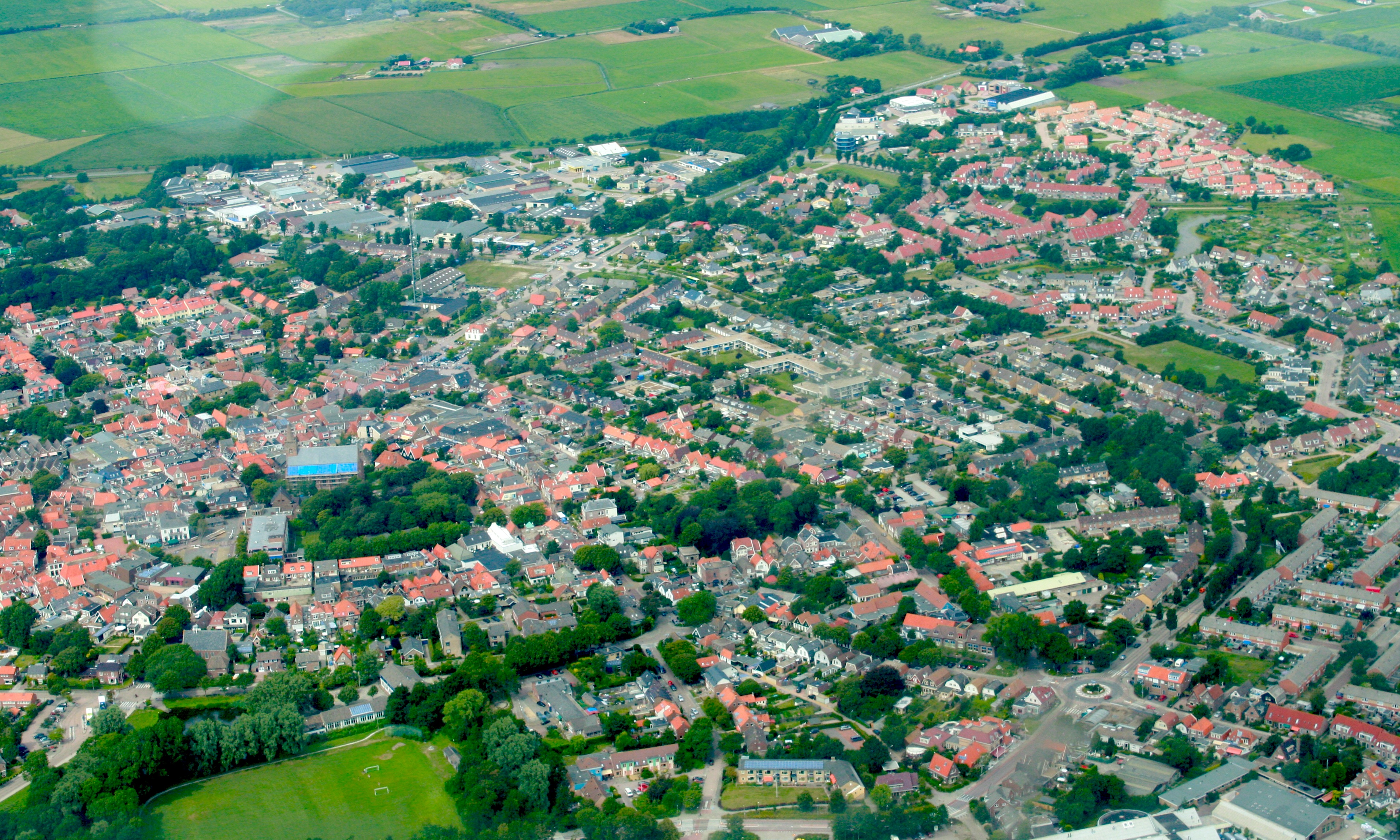 This is an aerial shot by myself above Den Burg, Texel, the Netherlands.